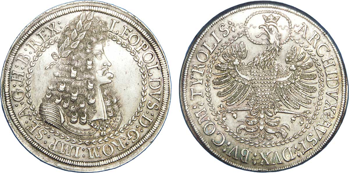 Double thaler à l'effigie de Léopold I